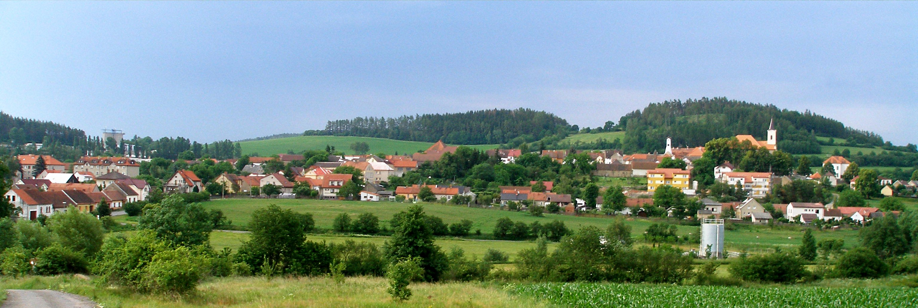 Krásná Hora nad Vltavou - the general view from the north